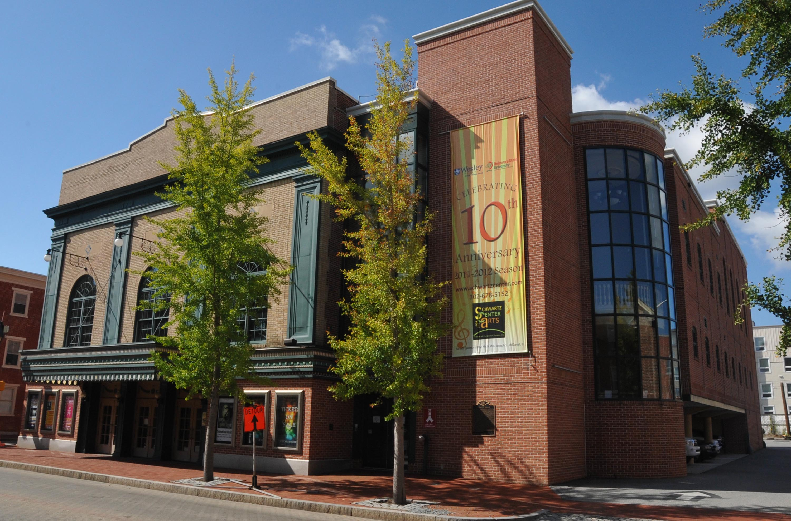 OPENED IN 1904 AND STILL IS A THEATER FOR THE PERFORMING ARTS; LOCATED ON SOUTH STATE STREET JUST OFF THE GREEN